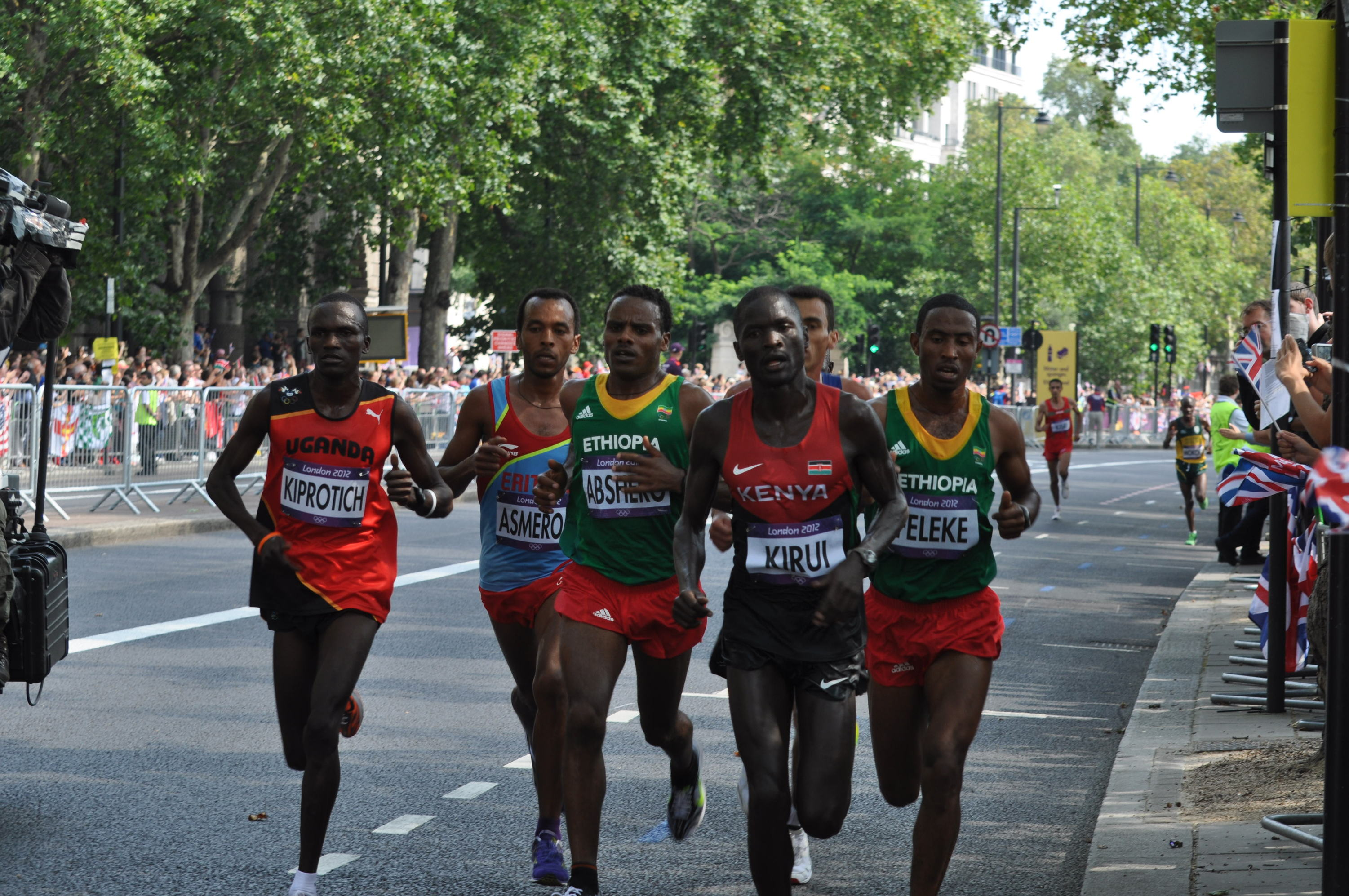 The men's marathon of the 2012 Summer Olympics in London, UK took place on an Olympic marathon street course on Sunday 12th August 2012 at 11:00. This was the final day of the 30th Olympic Games. Stephen Kiprotich, Yared Asmerom, Ayele Abshero, Abel Kirui, Getu Feleke The London 2012 marathon course is the standard Olympic distance of 26 miles 385 yards and consists of one short lap of approx 2.2 miles followed by three longer laps of 8 miles. The course began on The Mall and travelled past several of the most famous London landmarks. The start/finish line was near the Victoria Memorial. These photographs were taken at the Victoria Embankment. This featured several times on the looped course. The approximate location from the photographs is shown in the Google StreetView Link below. Stephen Kiprotich won in 2 hours, 8 minutes, 1 second as he pulled away from the Kenyan duo of Abel Kirui and Wilson Kiprotich Kipsang. These photographs are unofficial photographs. They are not endorsed by London 2012. There are not commercially available. They are available for use under a Creative Commons License. Please link back to the photograph on my Flickr account if you use the image.